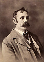 Photograph of the Australian painter Walter Withers